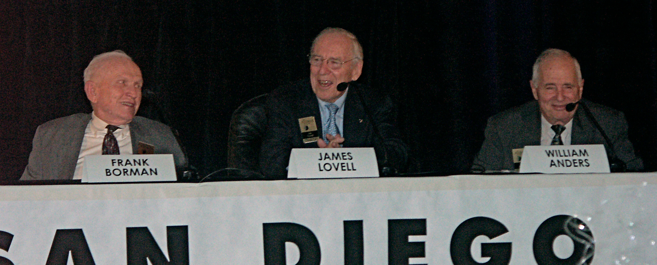 Frank Borman, James Lovell, and William Anders at an Apollo 8 Anniversary Gala at the San Diego Air & Space Museum in December 2008.